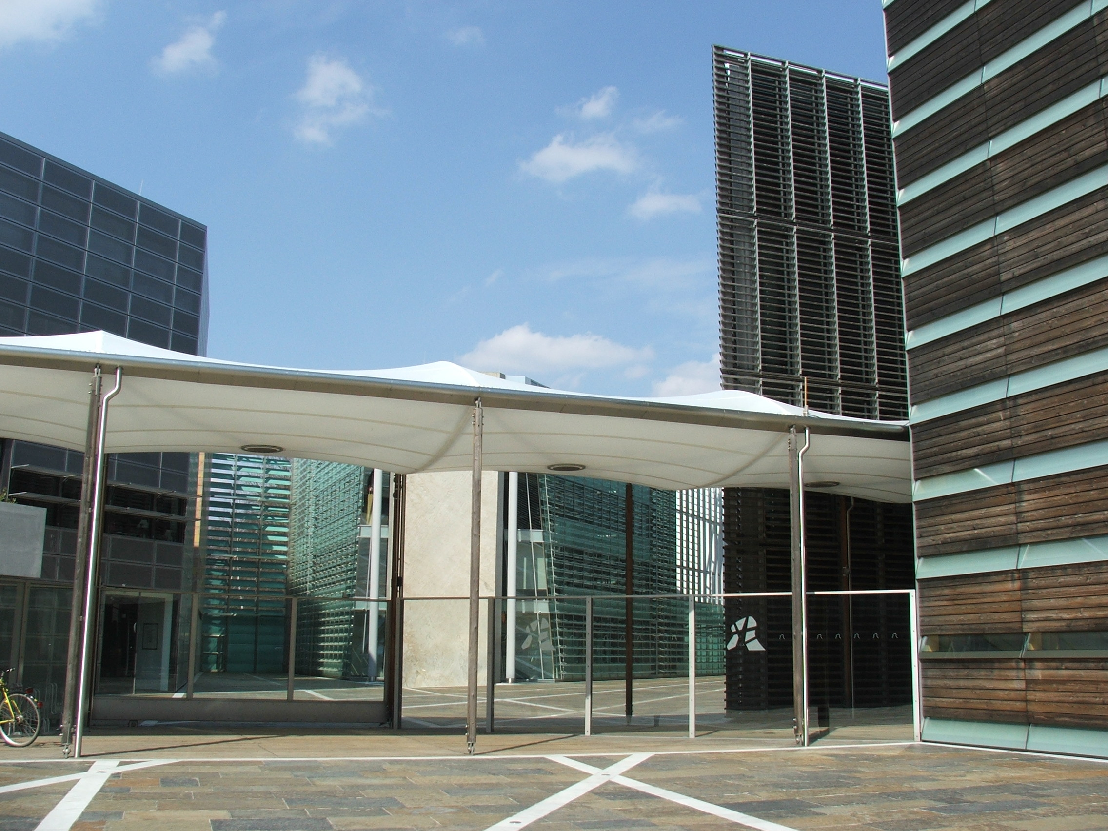 Nordic embassies in Berlin